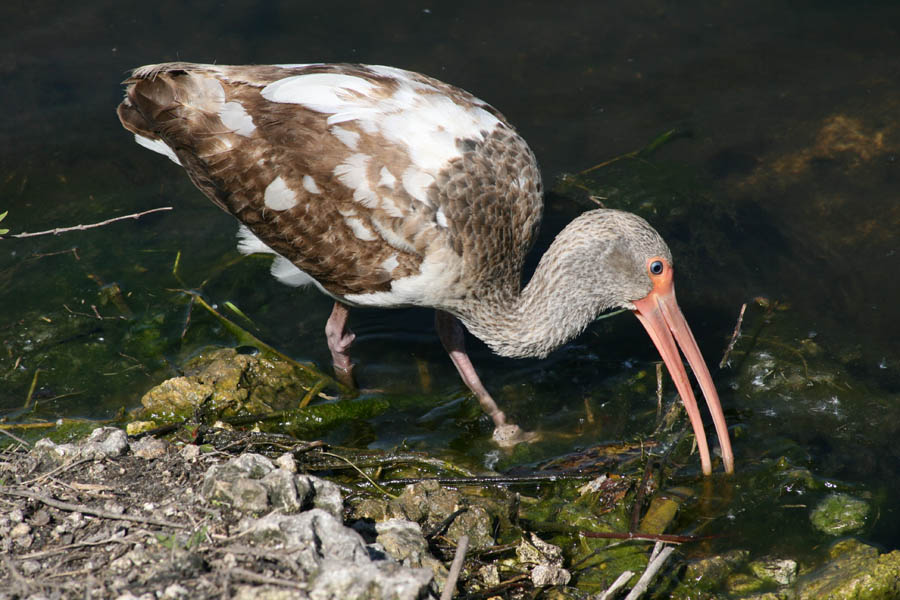 Juvenile American White Ibis (Eudocimus albus), Anhinga Trail, Everglades National Park, Florida